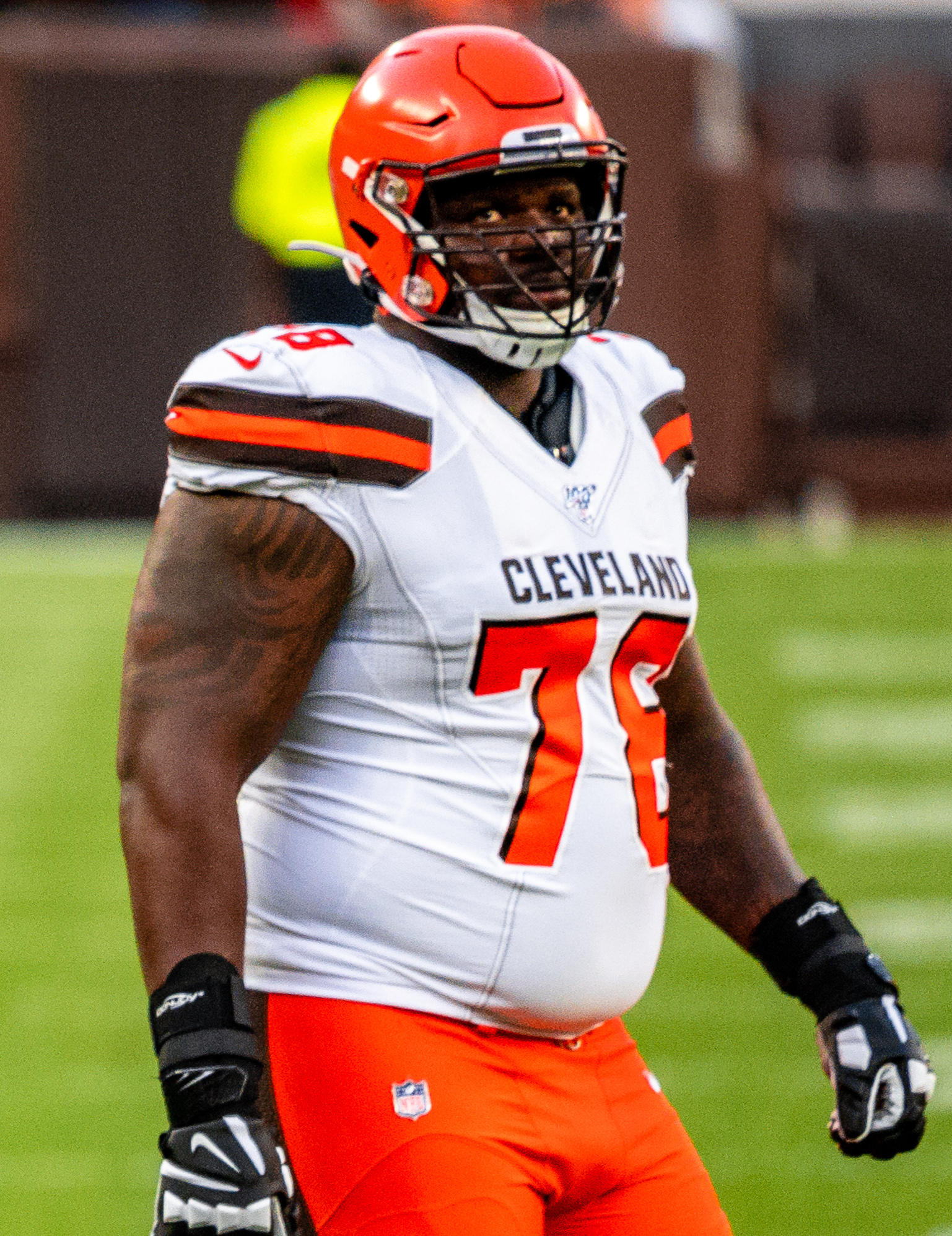 Cleveland Browns quarterback, Baker Mayfield, and offensive tackle, Greg Robinson, during a preseason game against the Washington Redskins on August 8, 2019.